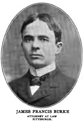 James Francis Burke, US Congressman, founder of the College Republicans, and leader in the Republican Party